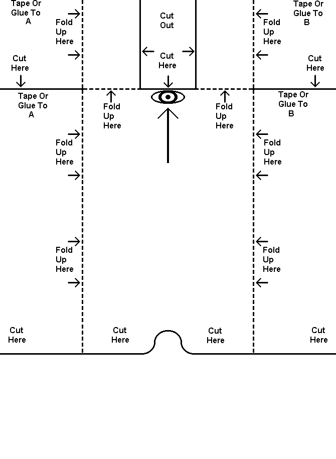 Line drawing of printable paper 3-d stereograph crosseye viewer.